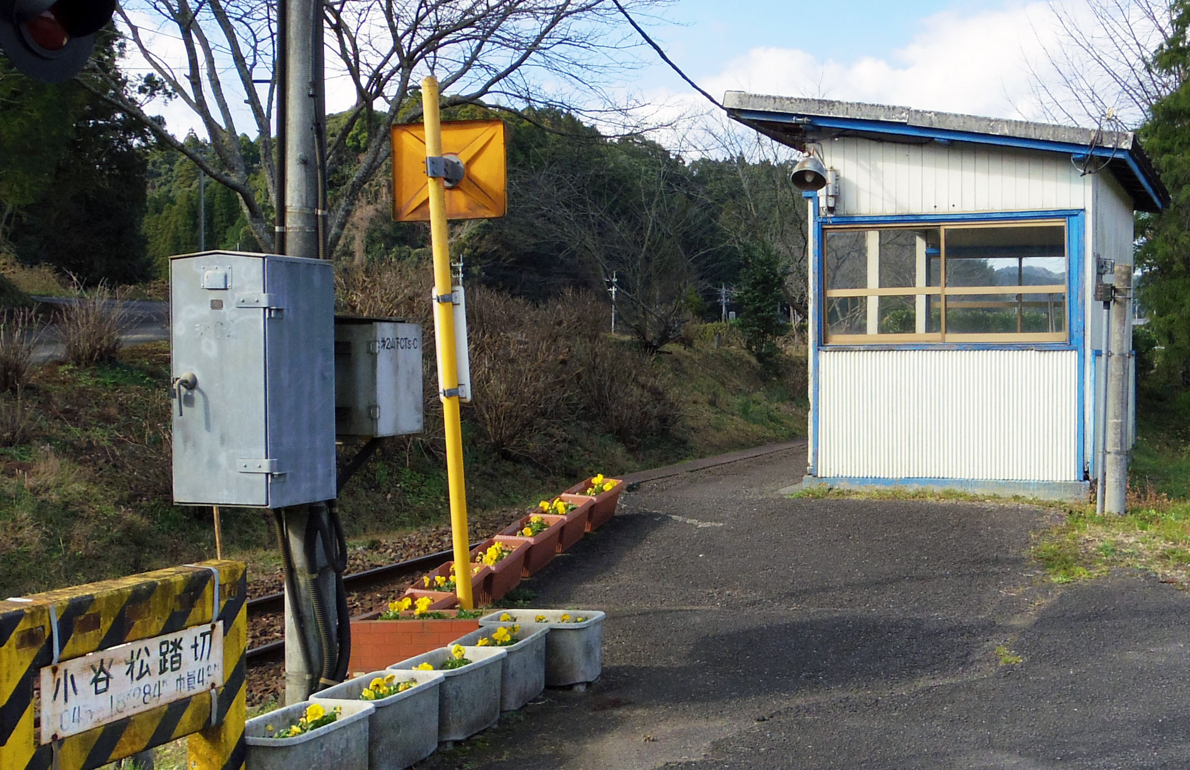 The entrance to Koyamatsu Station on the Isumi Line in Ōtaki town, Chiba prefecture, Japan